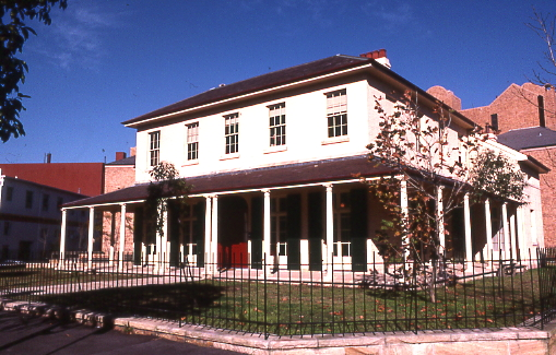 Durham Hall, Albion Street; on the National Estate, Surry Hills, New South Wales, Sydney, photo by Sardaka 03:28, 28 July 2007 (UTC)